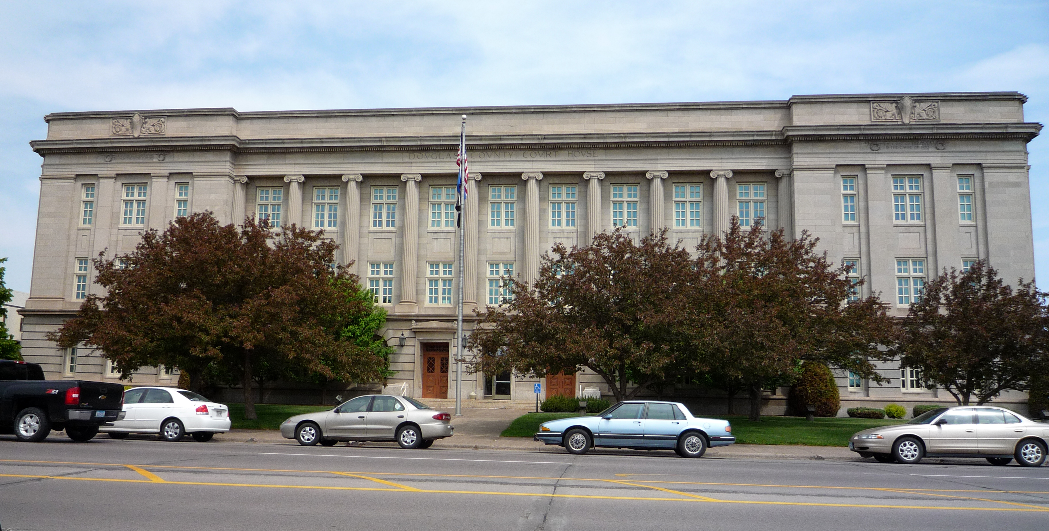 Douglas County Courthouse, Superior, Wisconsin, USA.